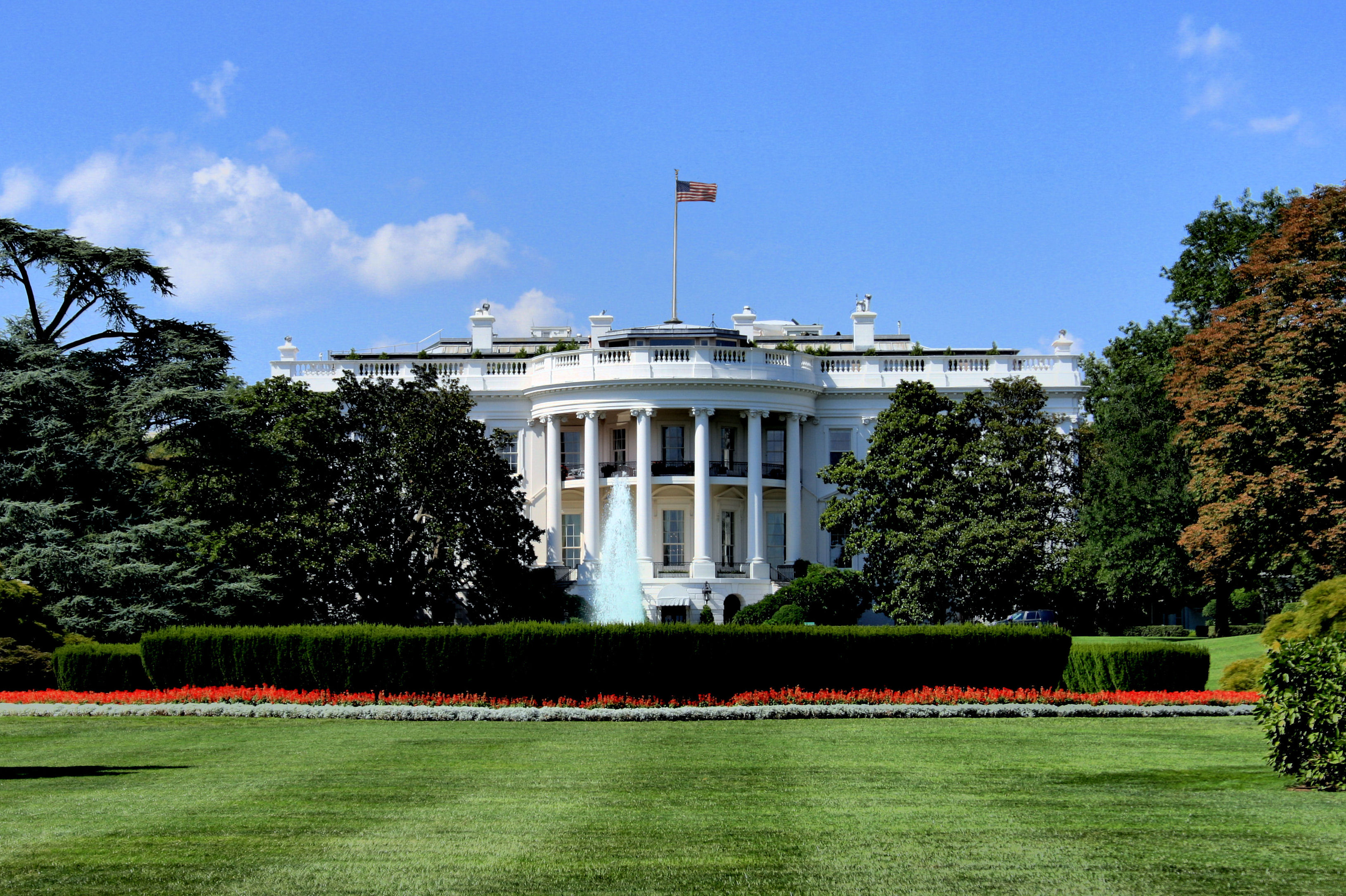 South façade of the White House, the executive mansion of the President of the United States, located at 1600 Pennsylvania Avenue in Washington, D.C.